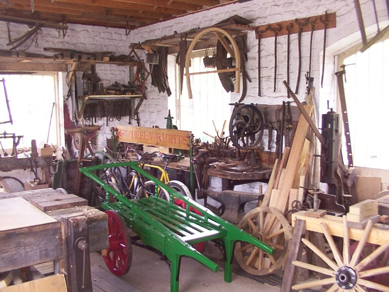 Wheel Wrights shop at the Amberley Working Museum in 2003 Photograph by Self